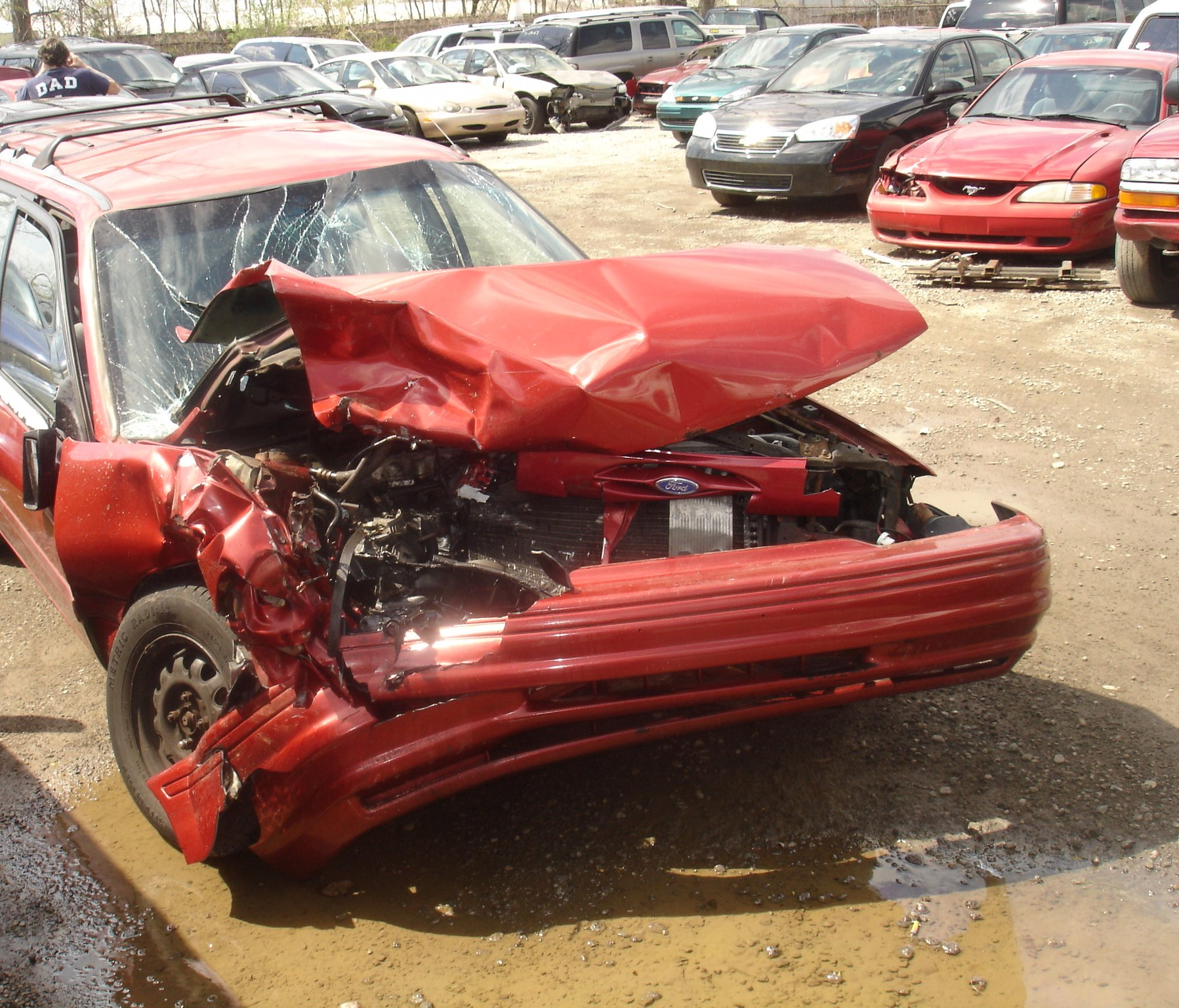 A wrecked Ford Escort.